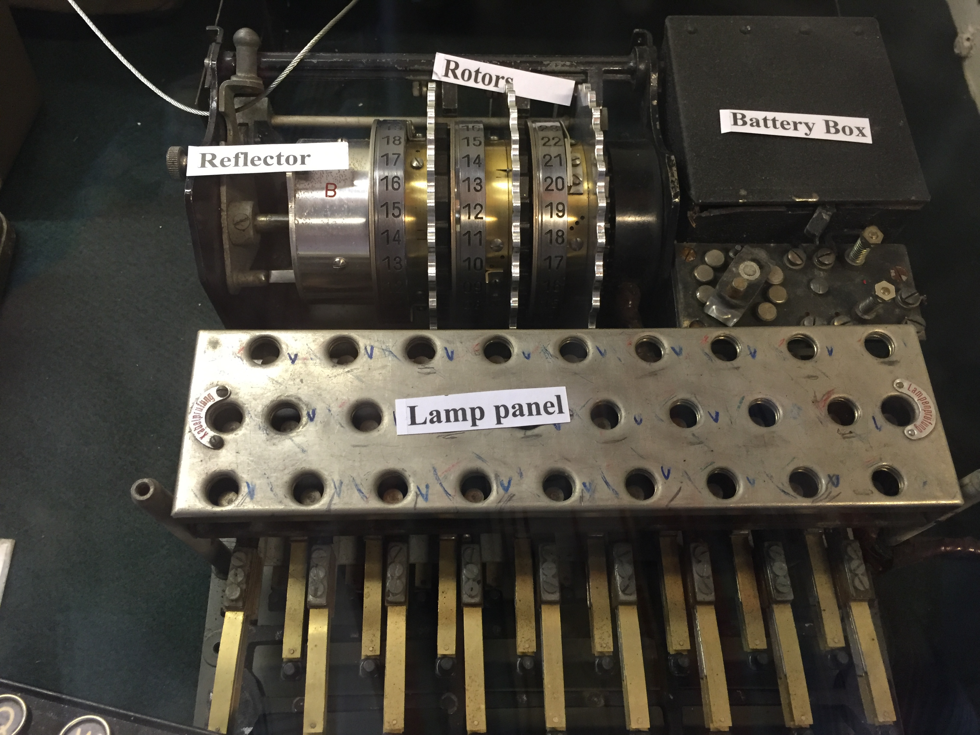 Enigma cipher machine insides. Displayed by at the MIT Flea Market.